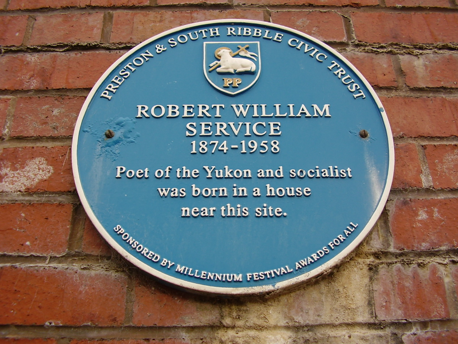 Plaque commemorating birth place of poet Robert William Service on Christian Road, Preston, Lancashire, England